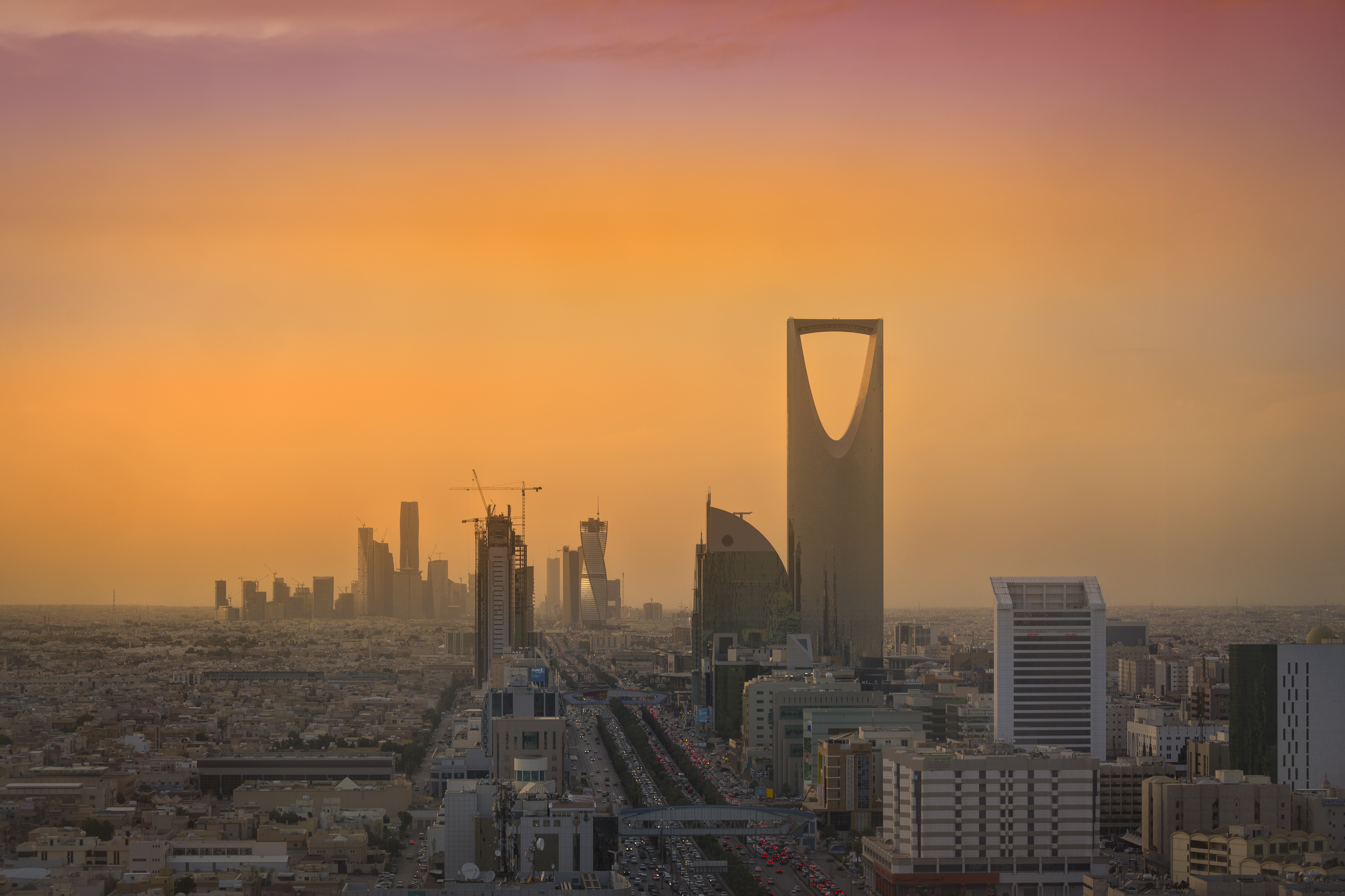 Riyadh Skyline showing the King Abdullah Financial District (KAFD) and the famous Kingdom Tower